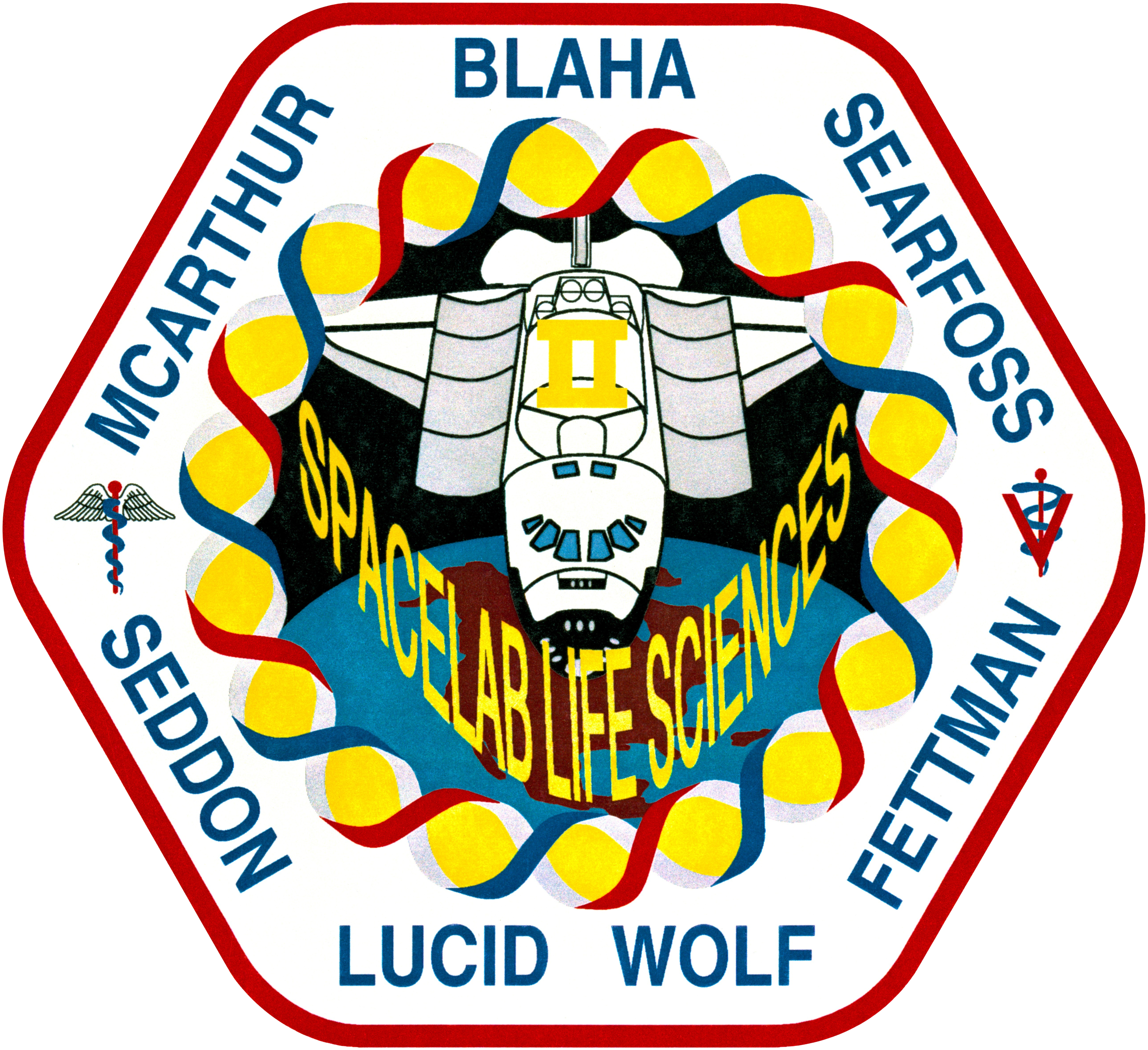 STS-58 Crew Insignia The STS-58 crew insignia depicts the Space Shuttle Columbia with a Spacelab module in its payload bay in orbit around Earth. The Spacelab and the lettering "Spacelab Life Sciences II" highlight its primary mission. An Extended Duration Orbiter (EDO) support pallet is shown in the aft payload bay, stressing the length of the mission. The hexagonal shape of the patch depicts the carbon ring. Encircling the inner border of the patch is the double helix of DNA. Its yellow background represents the sun. Both medical and veterinary caducei are shown to represent the STS-58 life sciences experiments. The position of the spacecraft in orbit about Earth with the United States in the background symbolizes the ongoing support of the American people for scientific research.